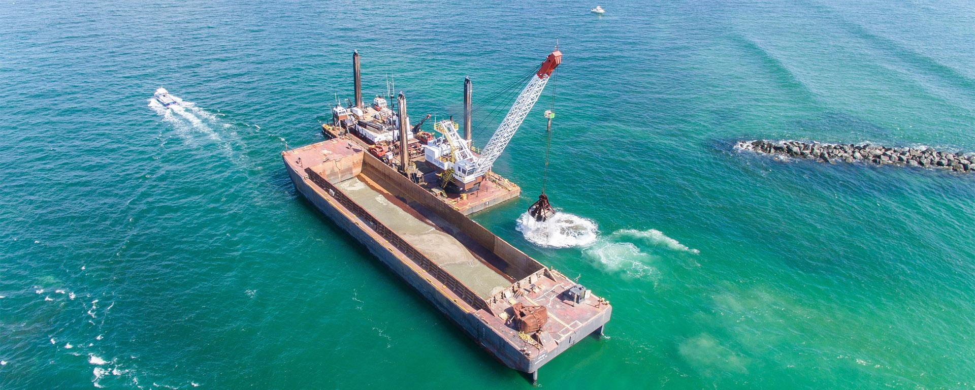 Dredging of the St Lucie inlet in Florida.